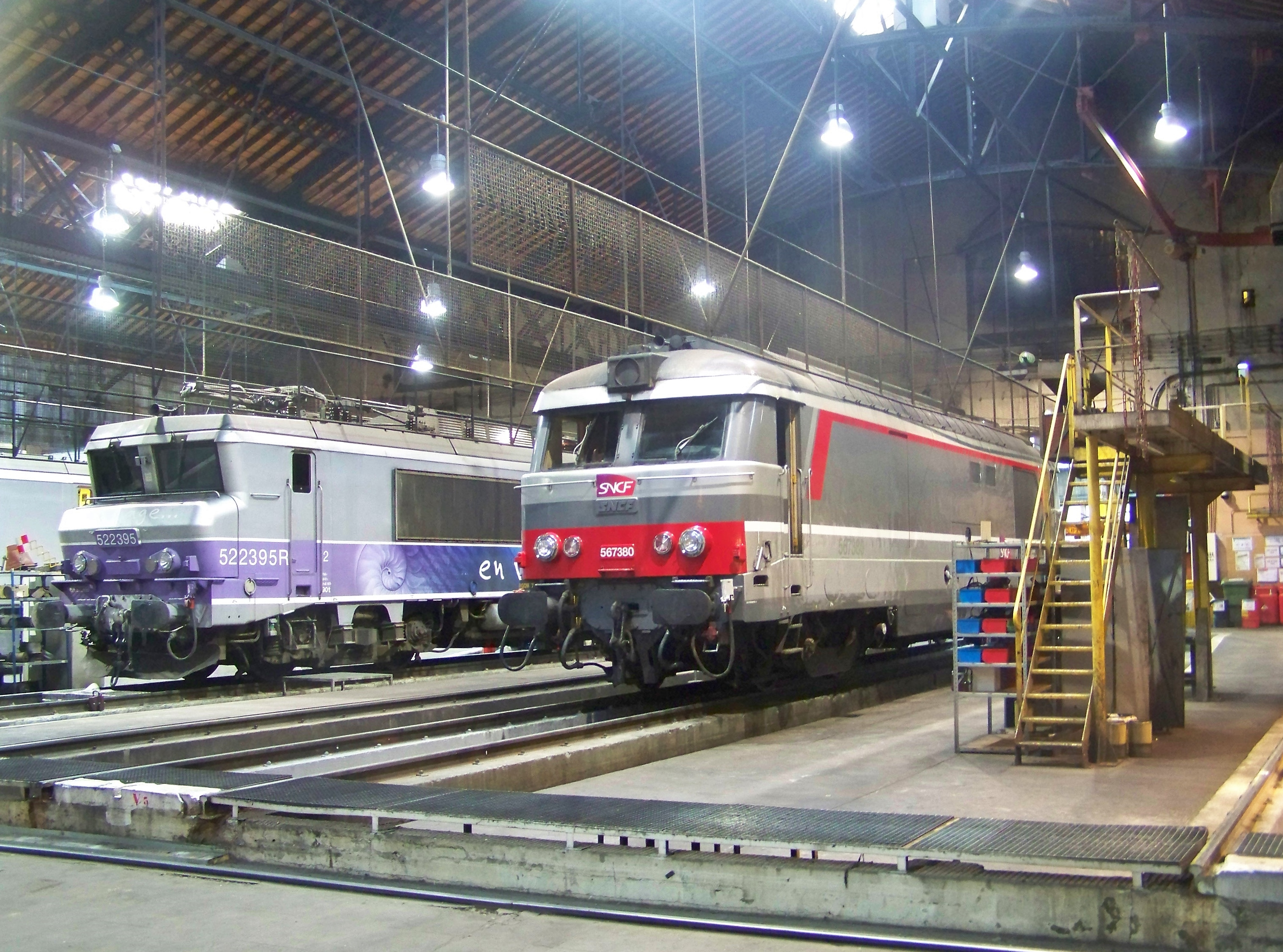 Sight of a SNCF Class BB 22200 and a SNCF Class BB 67300 being repaired inside the repair shop close to the big railway roundhouse, in Chambéry, Savoie, France.